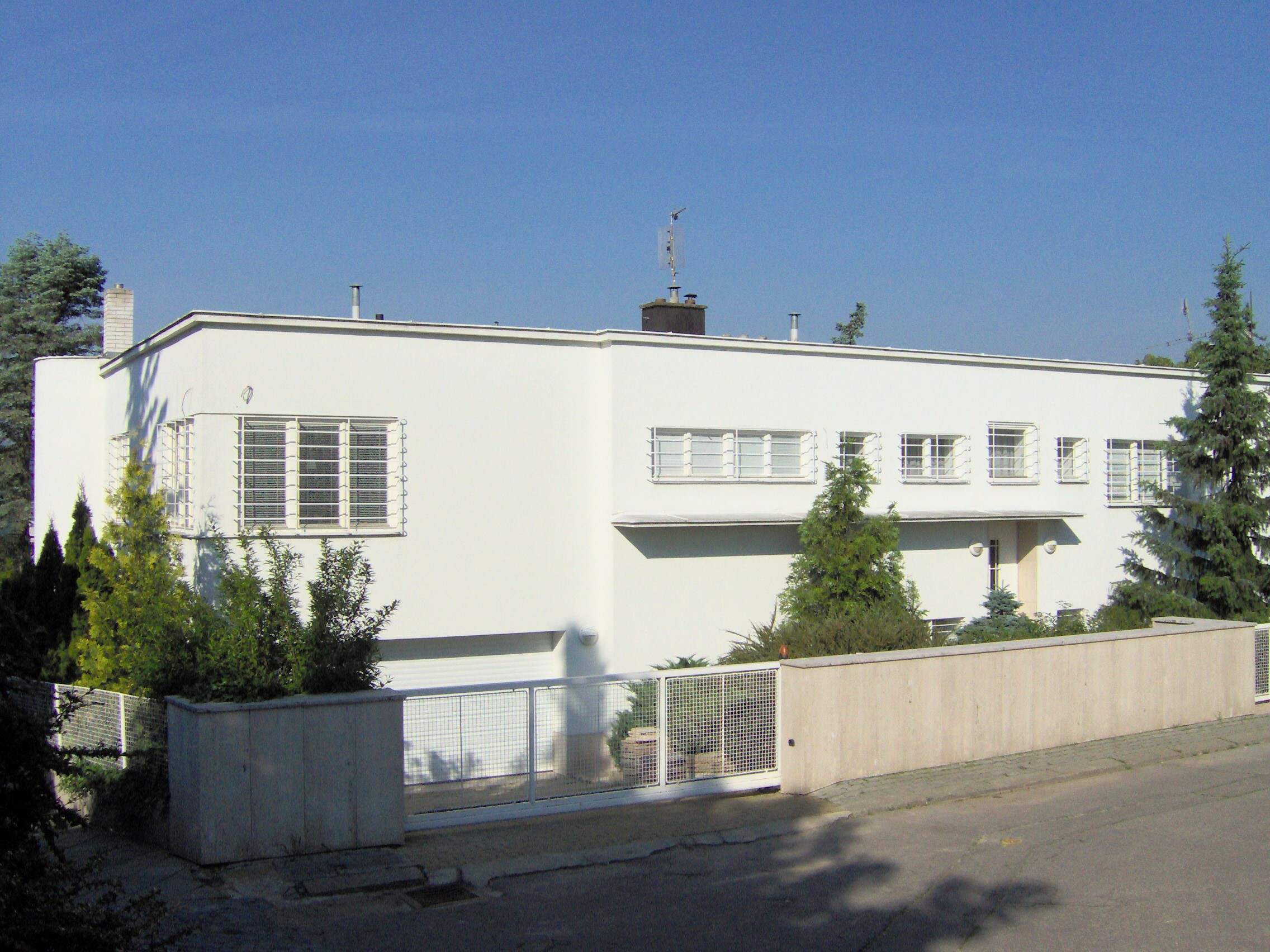 Villa Psota, Brno, Czech Republic